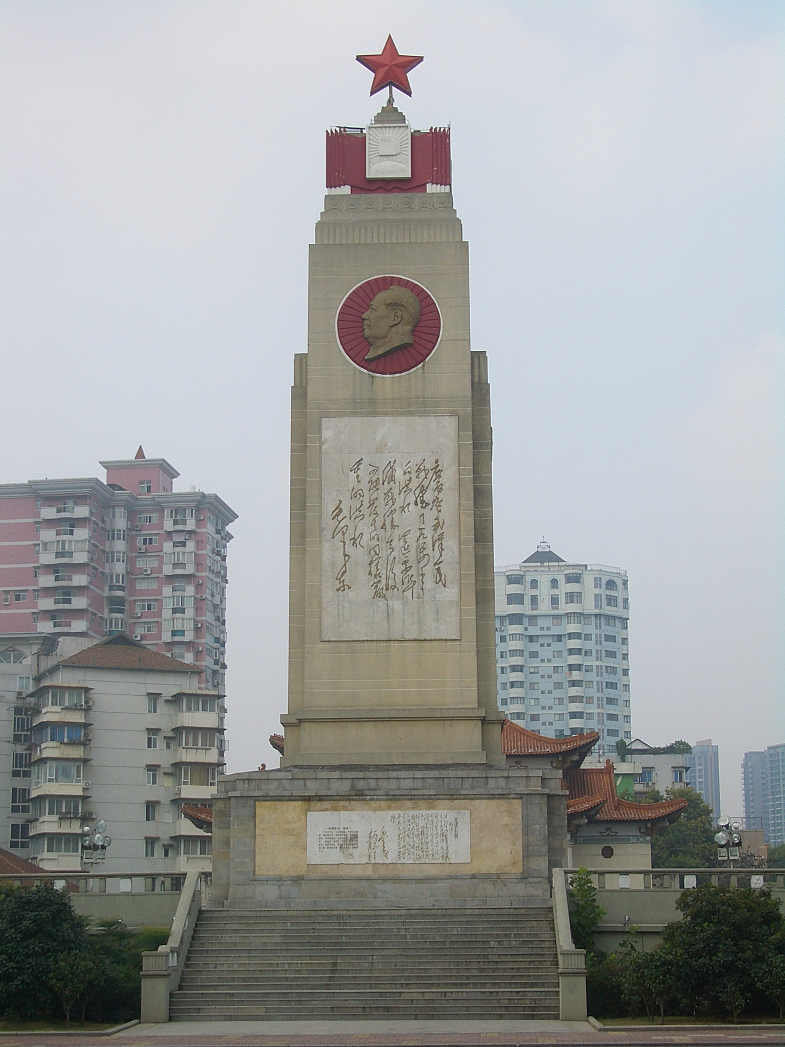 Monument to Wuhan's people overcoming the Yangtze Flood of 1954, with Mao Zedong's inscription